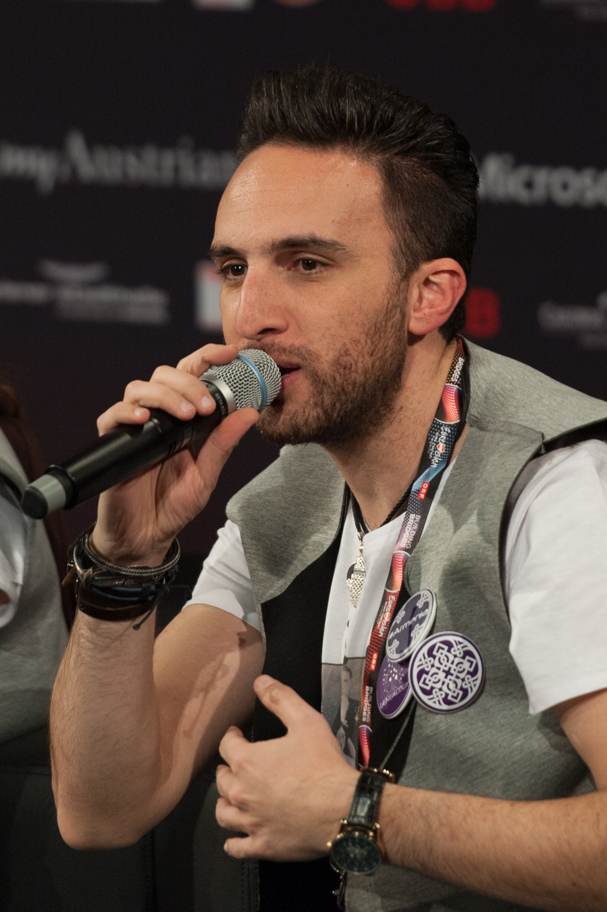 Eurovision Song Contest Vienna 2015: Genealogy, Armenia